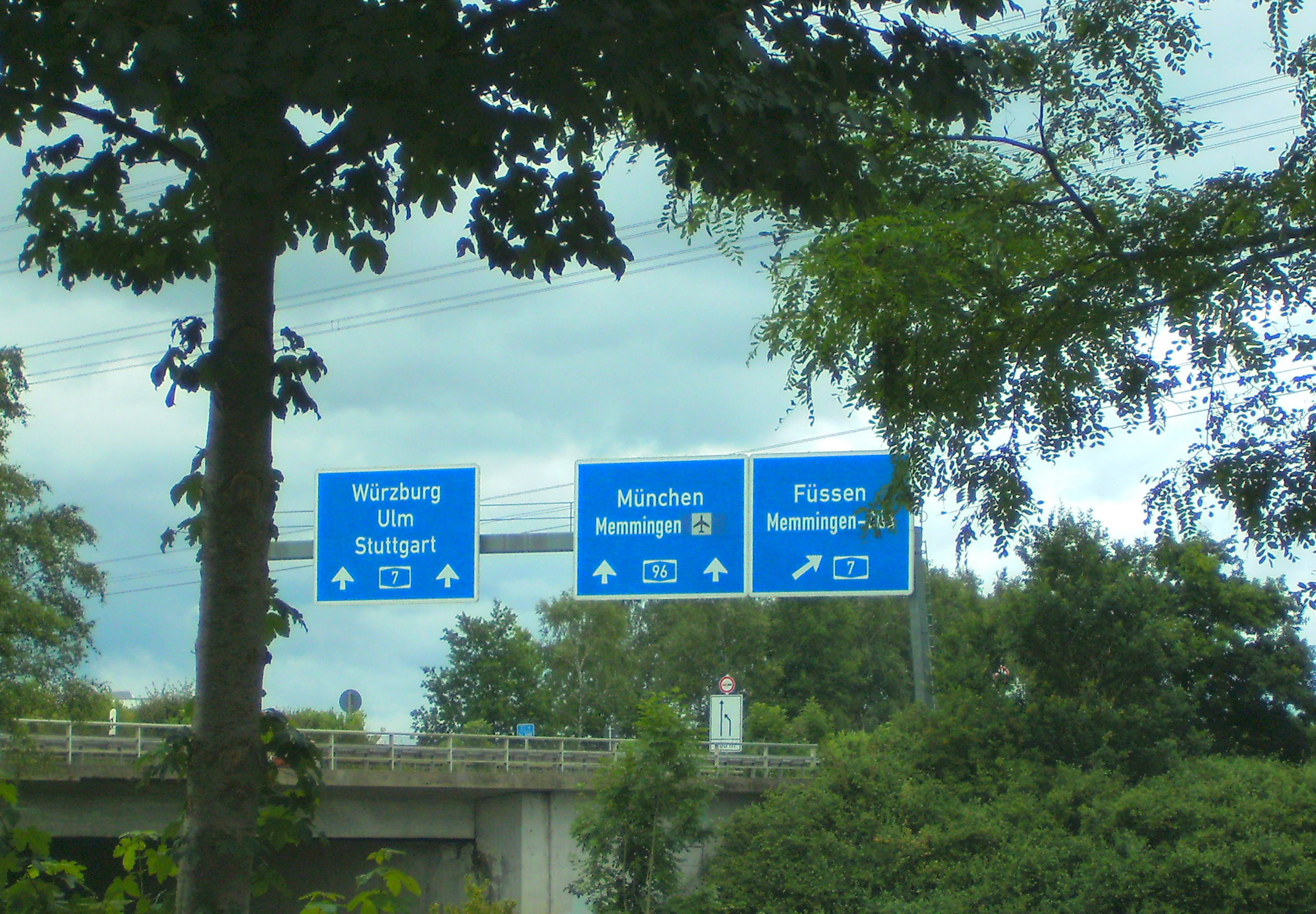 Interchange Memmingen (A 7/A 96) – Signpost on the A 96